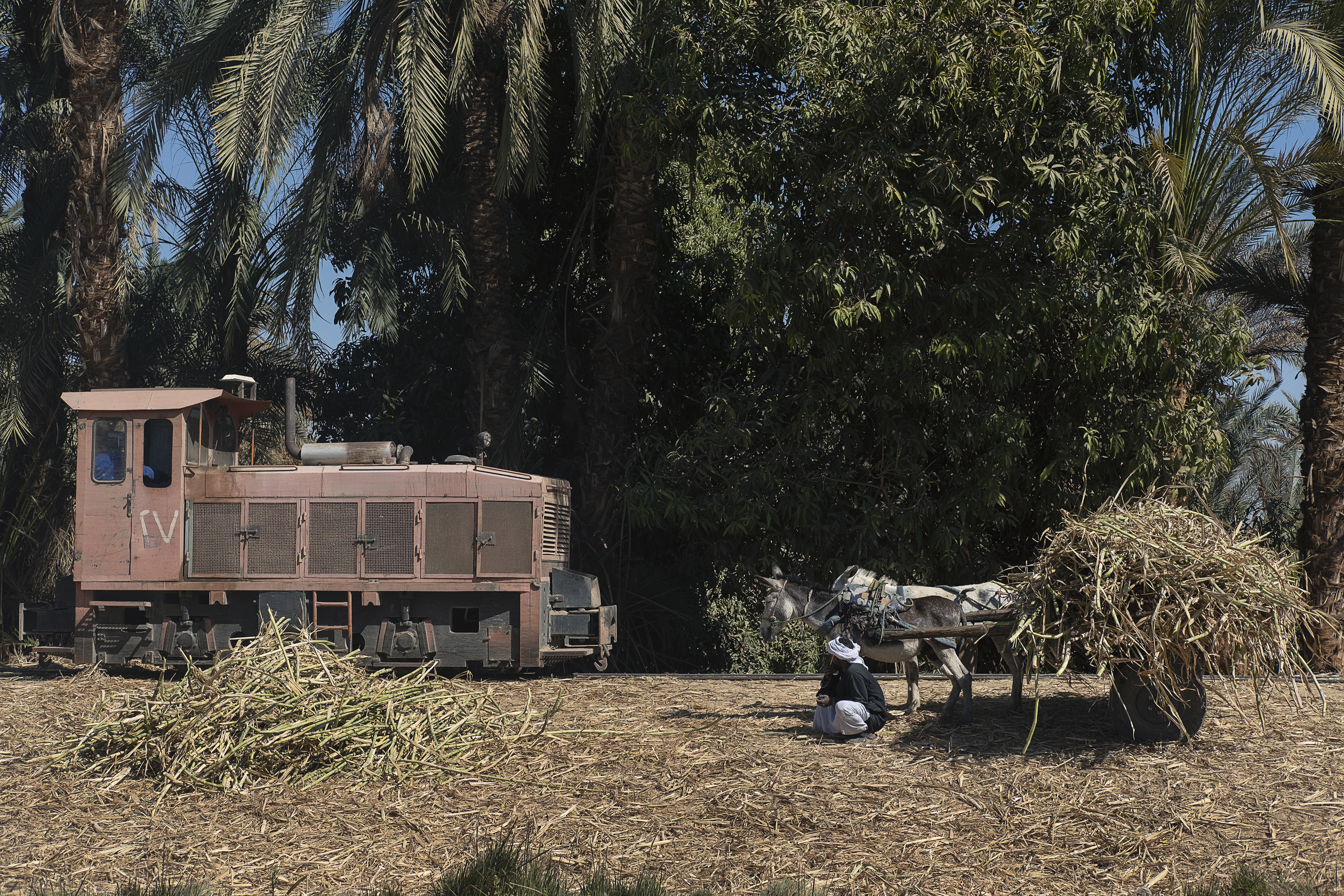 Train waiting to the cars full of suger cane to move to the factory This is an image with the theme "Africa on the Move or Transport" from: Egypt